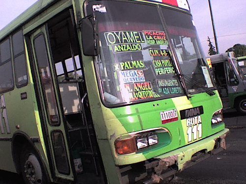 DINA bus in Mexico, D. F., Mexico.